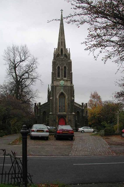 St Michael, South Grove, London N6